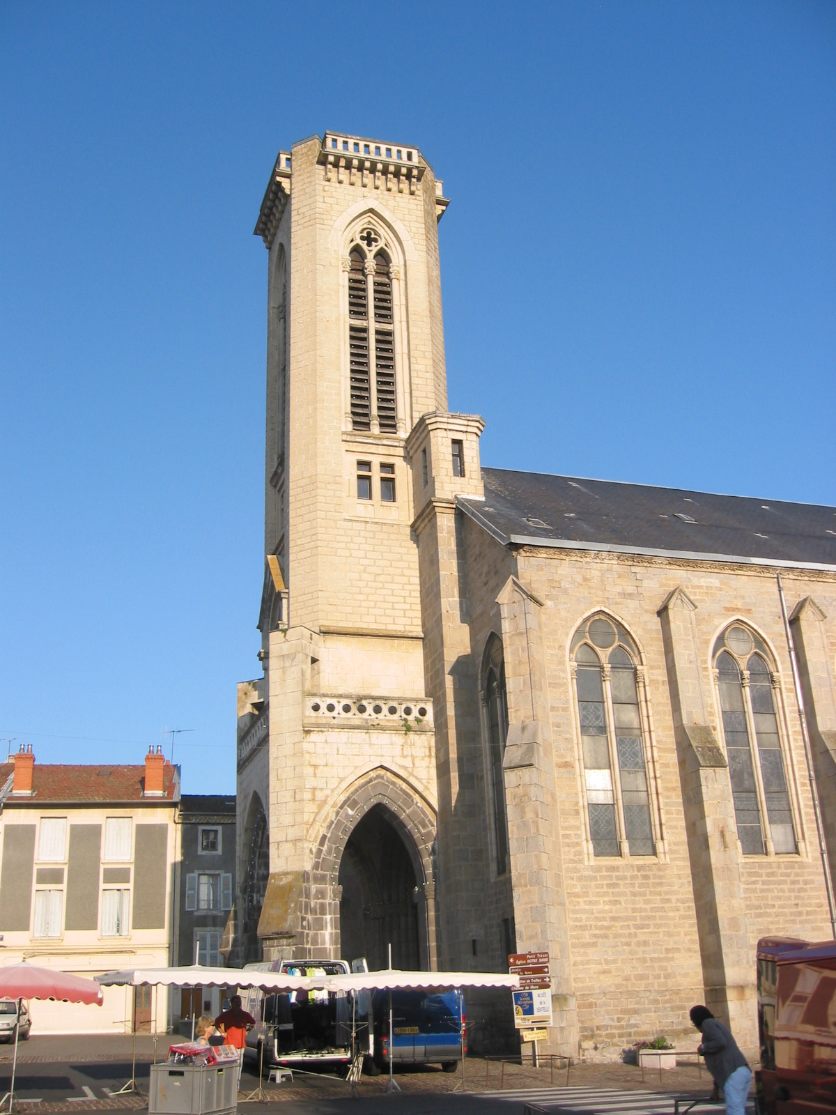 Bell tower of the parrochial church Notre-Dame, in Arlanc (Puy-de-Dôme, Auvergne, France), 1890-1925.